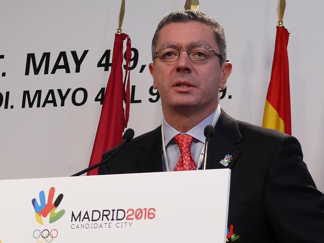 Madrid Mayor Alberto Ruiz Gallardon speaks to reporters following his presentation to the IOC panel where he restated the bid's financial guarantees. (ATR / Panasonic:Lumix)